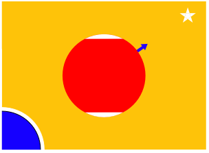 Drawing that shows the planet Mars, with polar ice caps.